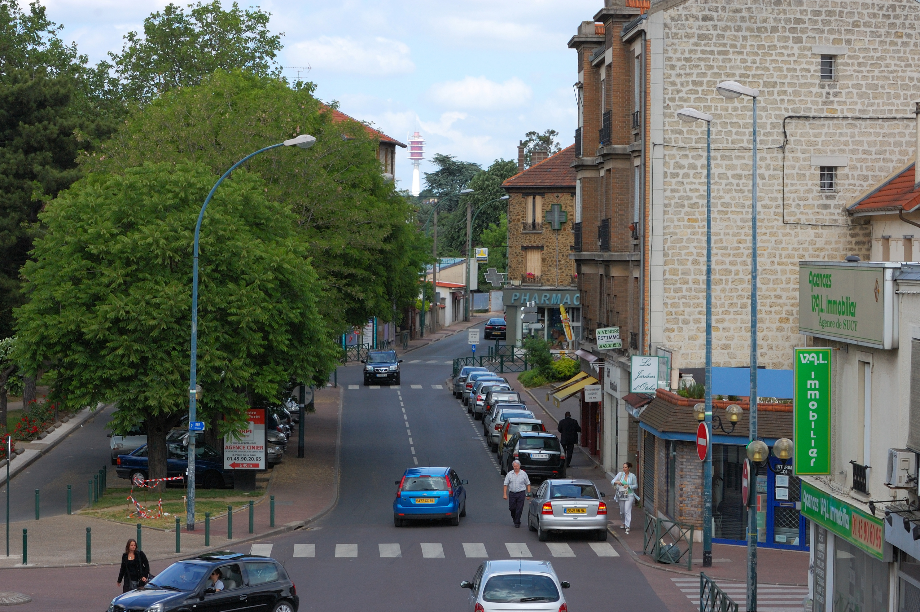 The Sucy-en-Brie's “Place de la gare”.